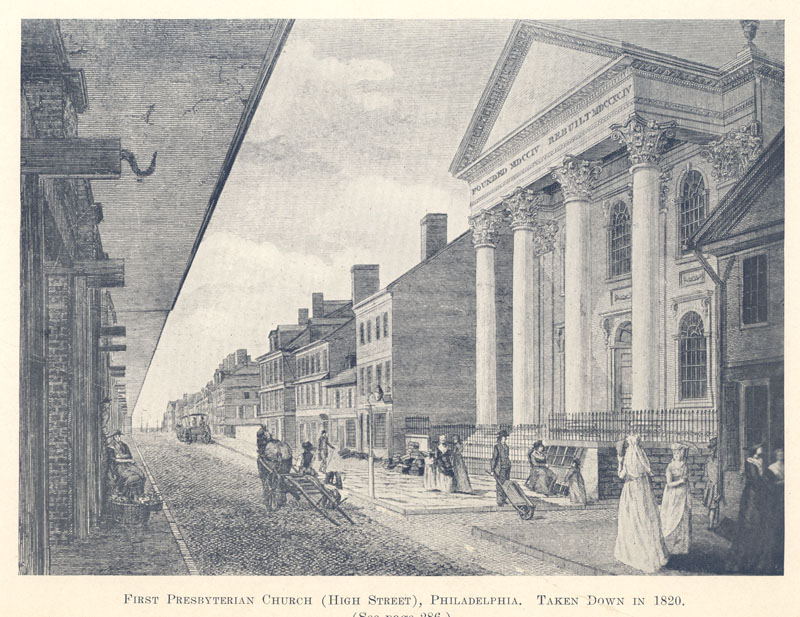 Illustration of the First Presbyterian Church in Philadelphia, Pennsylvania, when it stood on High Street. The church structure was taken down in 1820.